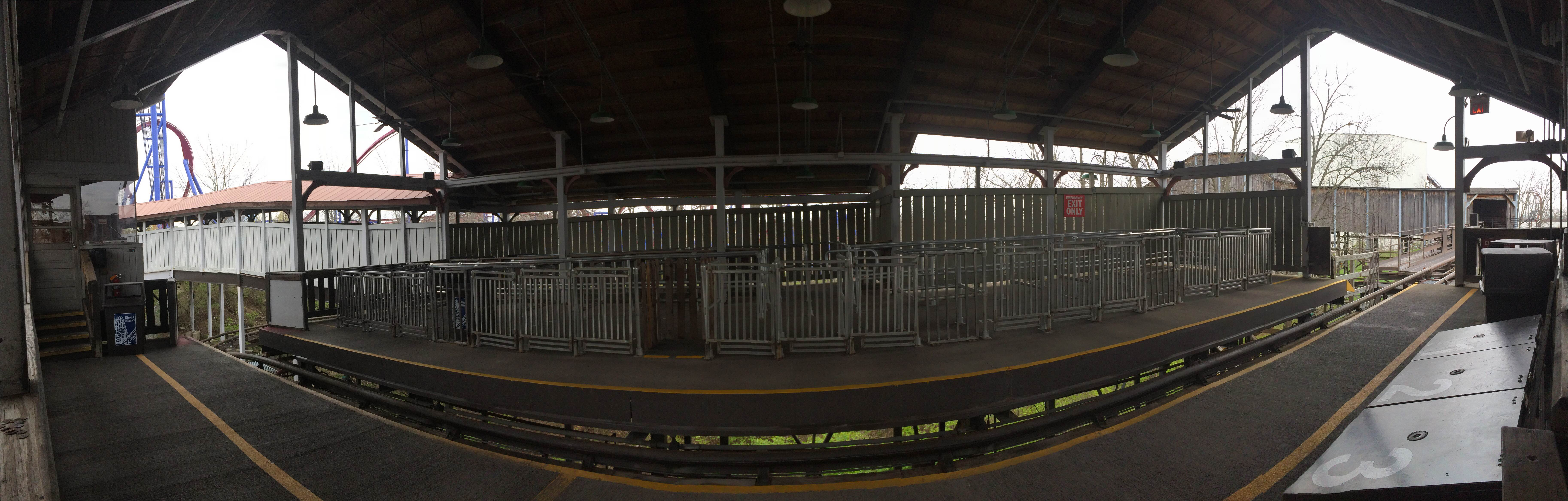 A Panorama picture of the Adventure Express Station at Kings Island